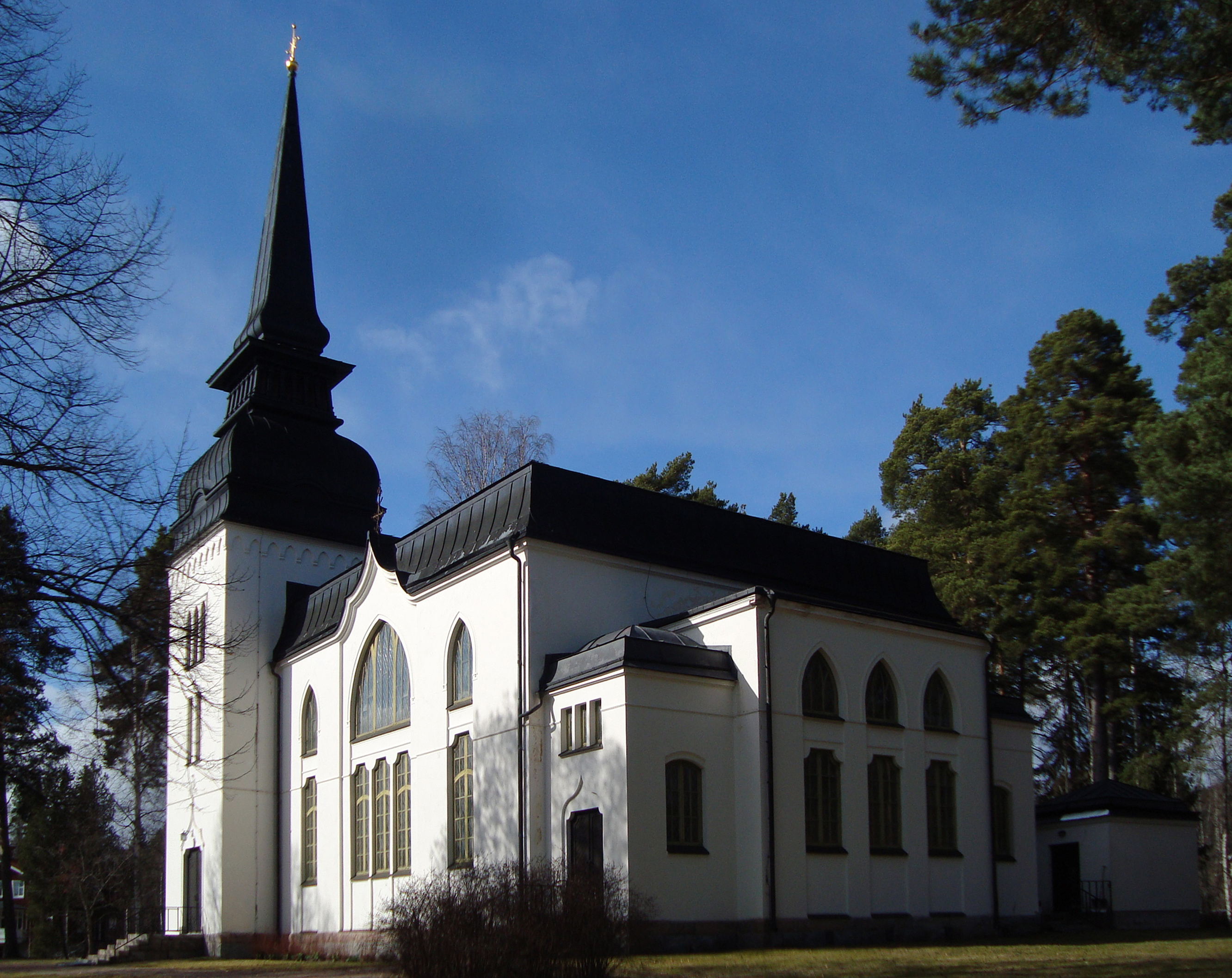 Grycksbo church, Grycksbo, Falu Municipality, Diocese of Västerås, Sweden